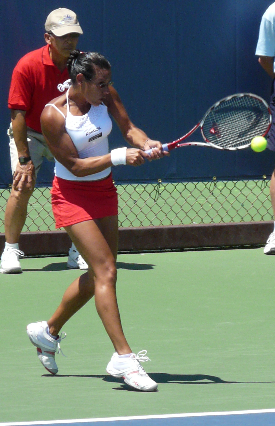 Stéphanie Foretz at the 2009 Bank of the West Classic